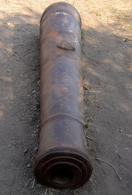 Seven iron cannons currently lying scattered atop the fort are in a state of neglect